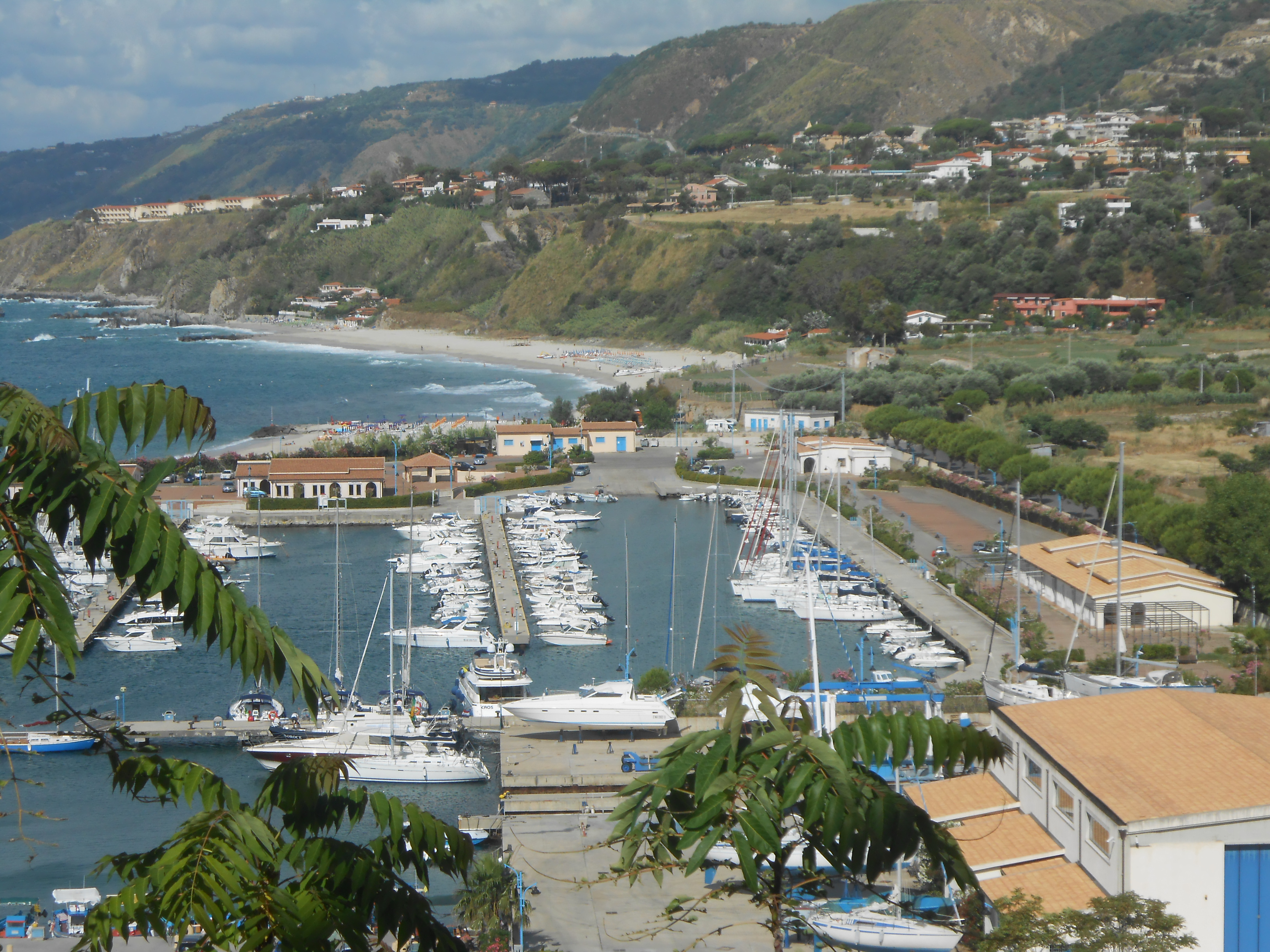 The Marina in Tropea ITALY